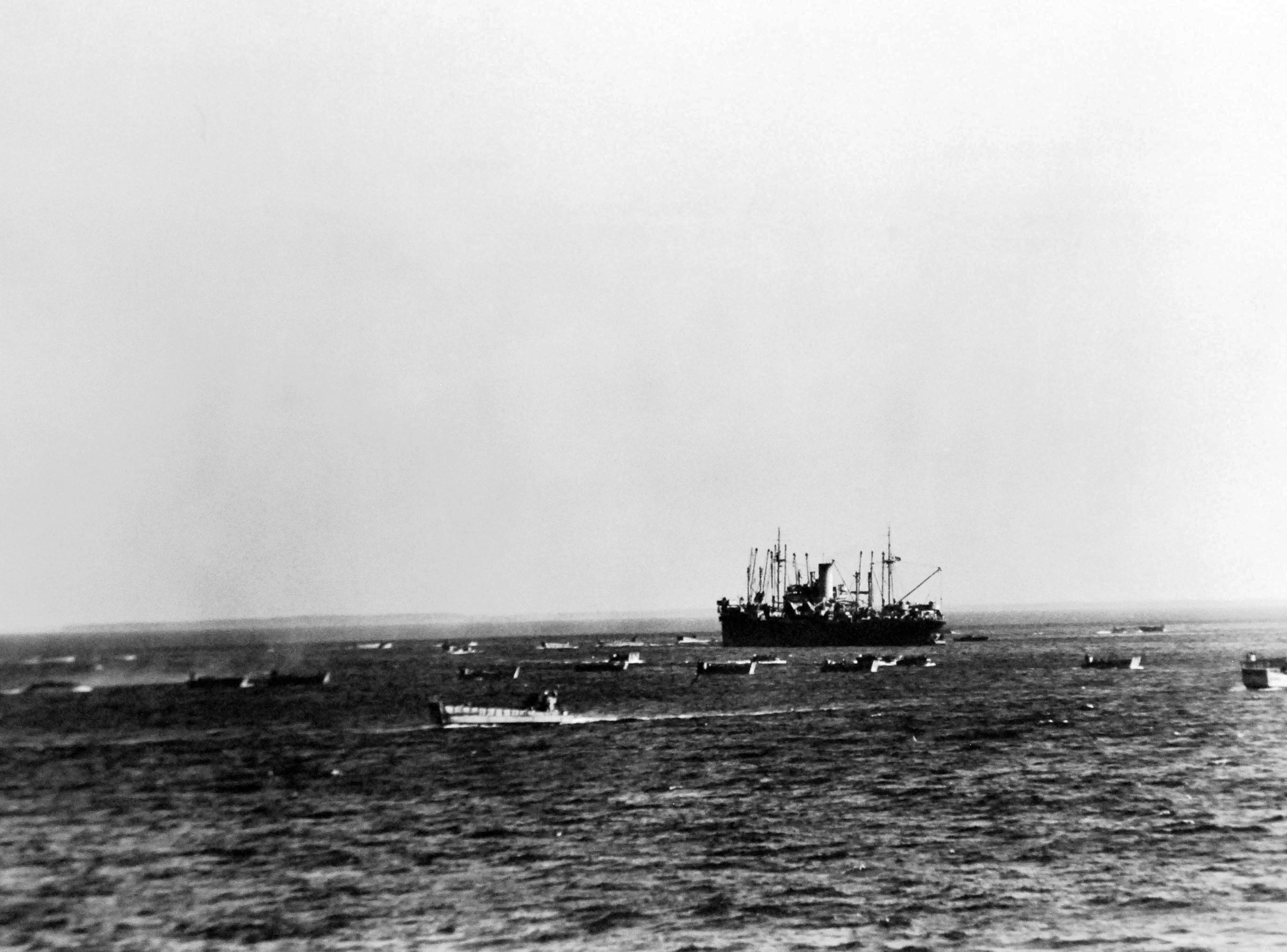 Lot-11582-3: Operation Torch, November 1942. Mother Ship. Approximately 20 U.S. Navy landing barges of various types swarm about a mother ship off Safi, French Morocco, during the American landing operations there during November 1942. U.S. Navy Photograph, released December 14, 1942. Courtesy of the Library of Congress. Photographed through Mylar sleeve. (2016/05/27).